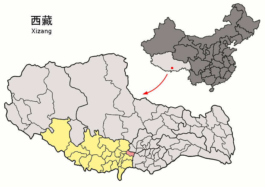 Location of Rinbung County (pink) and Xigazê Prefecture (yellow) within Tibet (Xizang) autonomous region of China